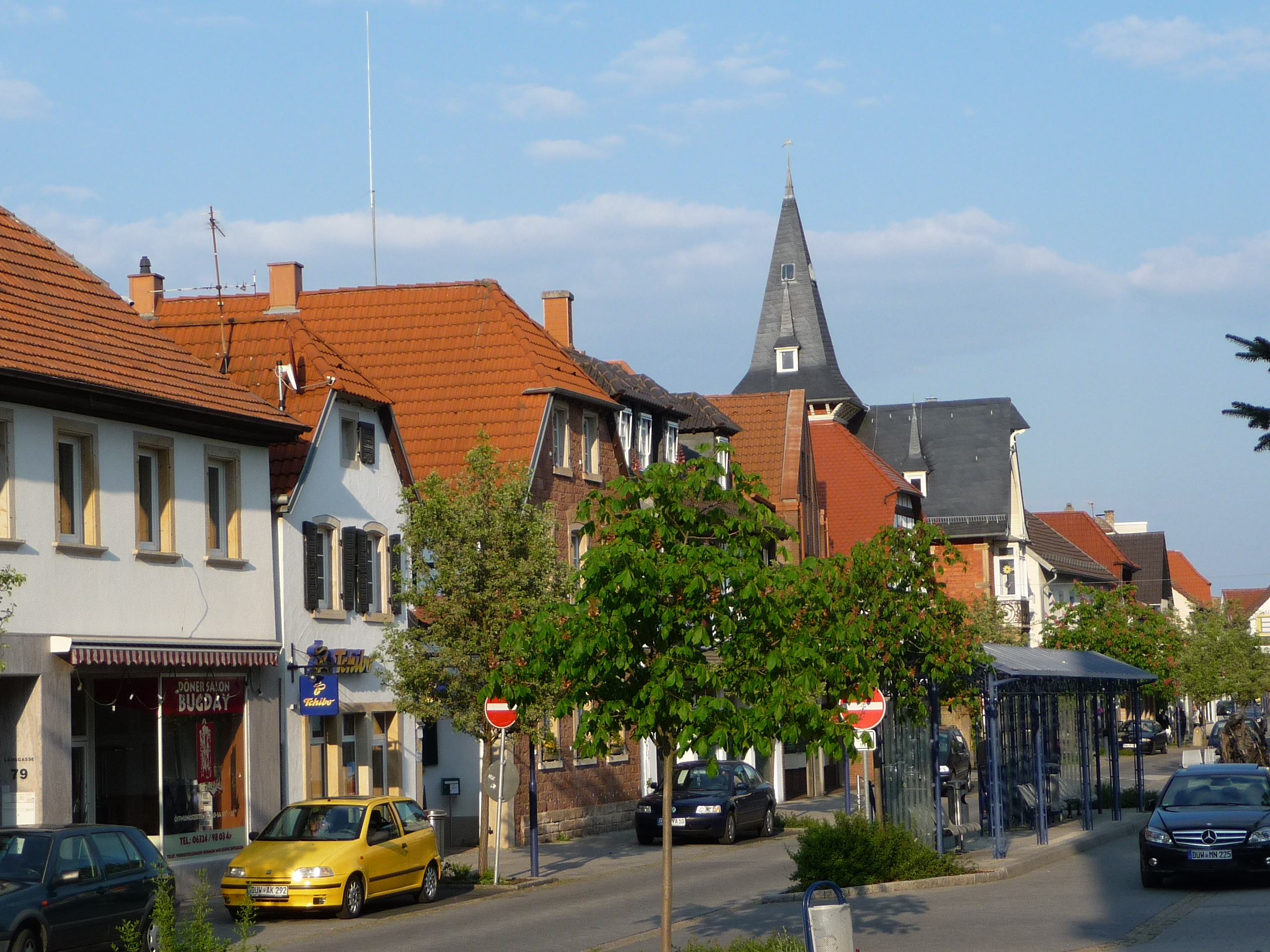 Haßloch